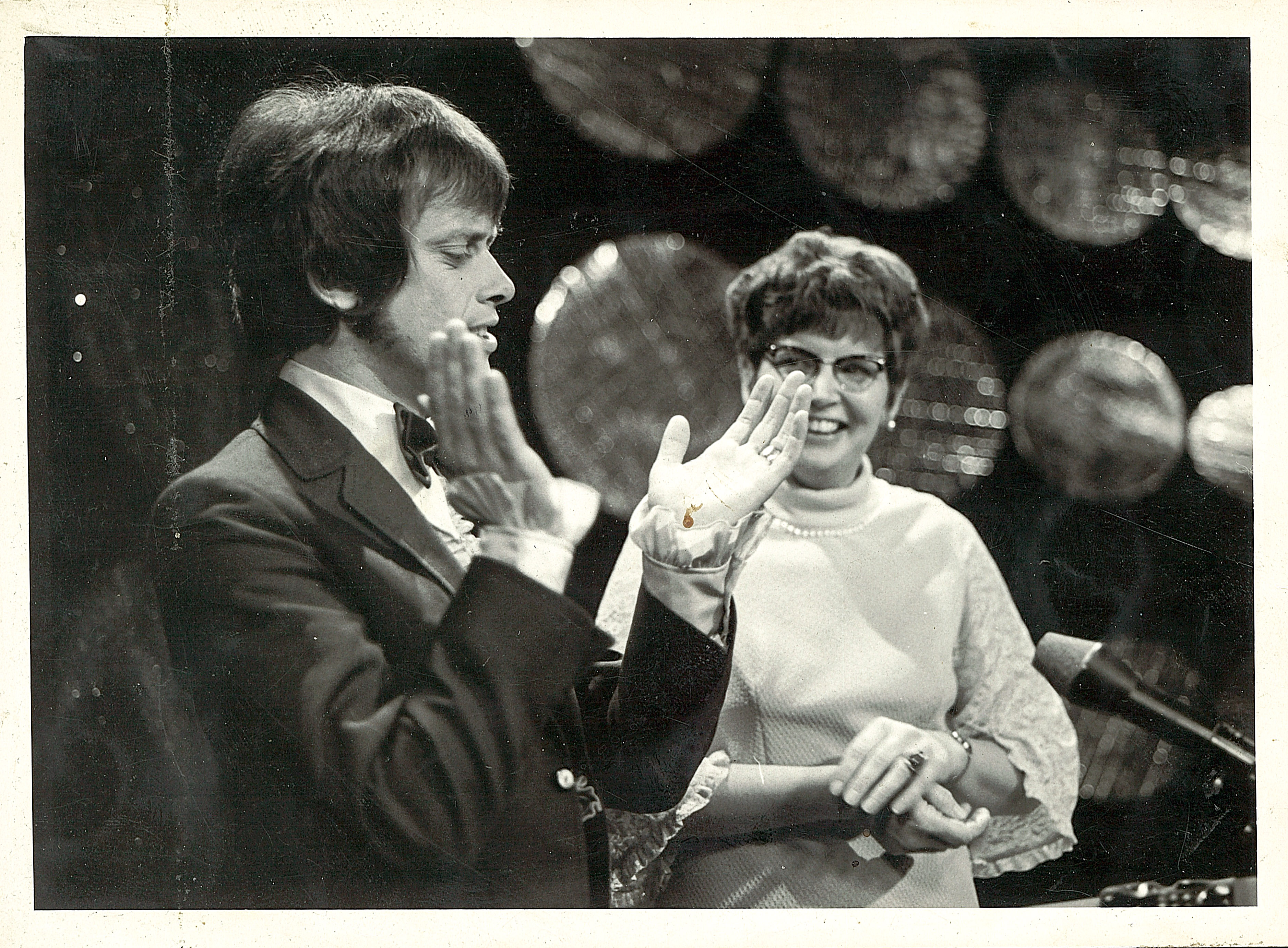 Ray Columbus, along with his band The Invaders, took Australasia by storm in 1964. That year their cover of the Senators single, 'She's a Mod' (released the same year), became the first song by a New Zealand band to reach No.1 offshore. Incidentally, the drummer for the Senators was a 16 year old John Bonham, who would later join a little band called Led Zeppelin. Pictured here in the early 1970s, this image of Ray Columbus comes from the Television New Zealand Dunedin Photographic Collection. [AAAA 21431 D569/9f (R1521863)] For further enquiries Material From Archives New Zealand